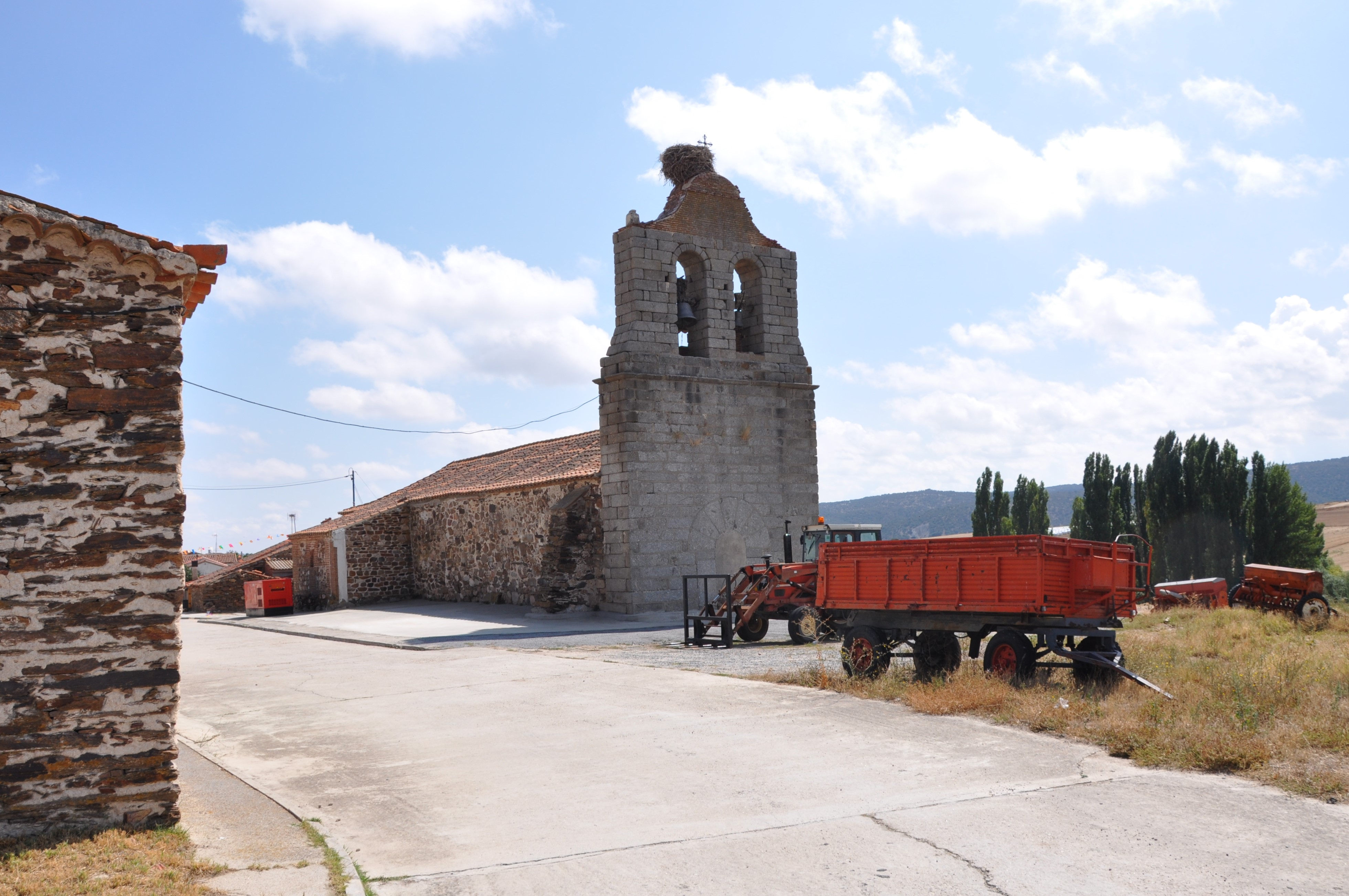 Parish Church of San Juan Bautista in Grandes, AV, Spain